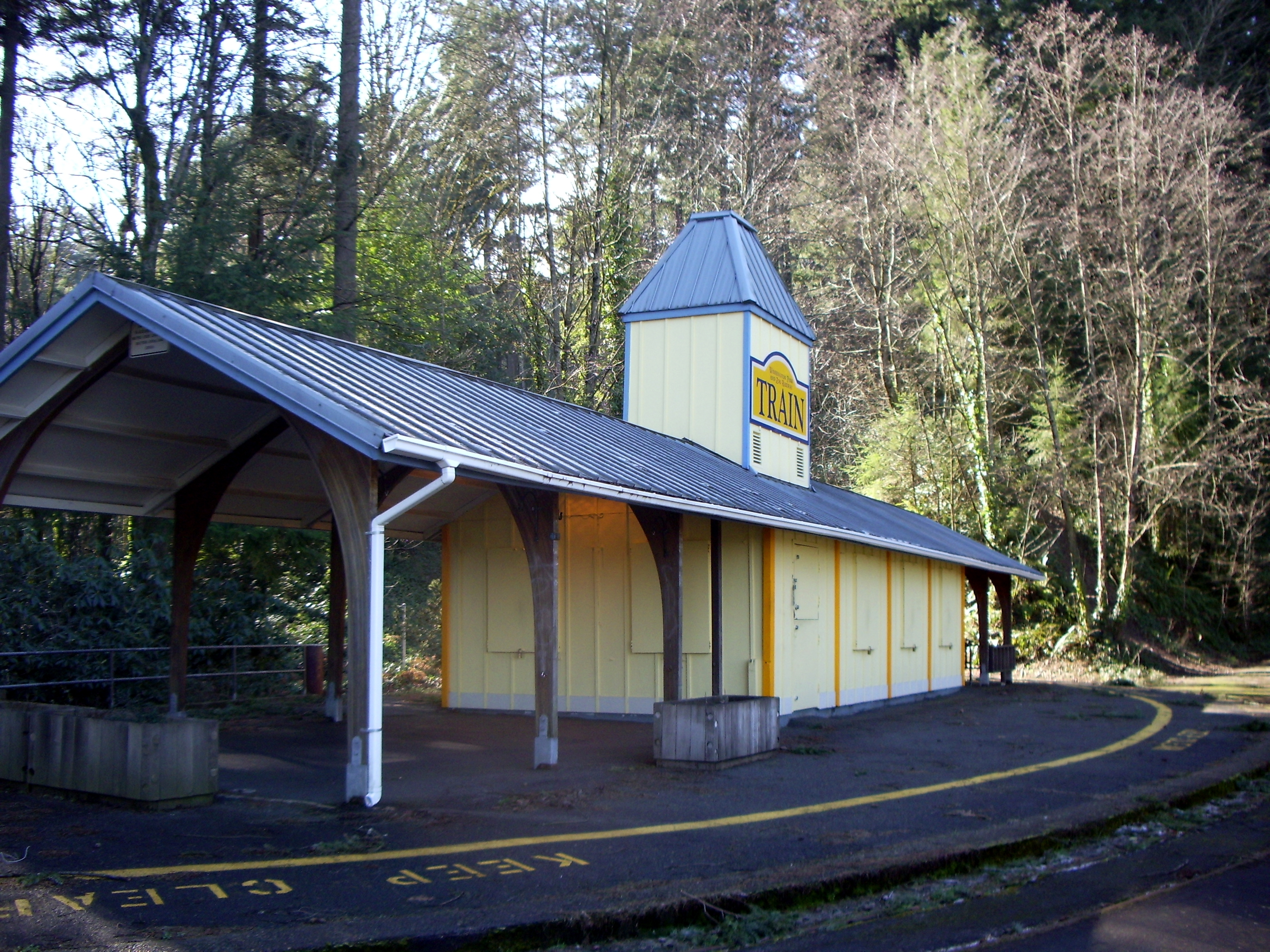 Washington Park and Zoo Railway's Rose Garden station in winter, during which season it is closed